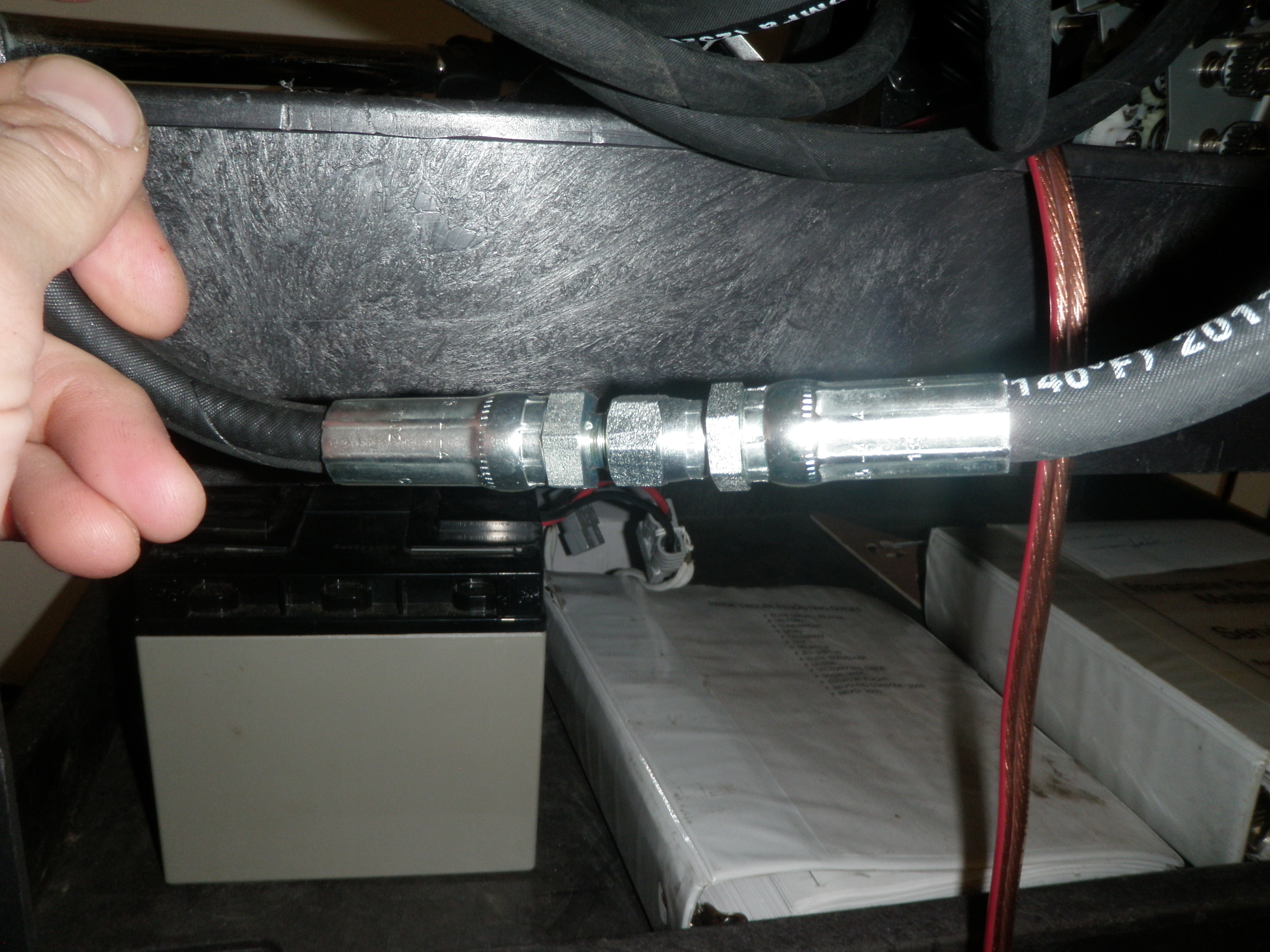 crimp on hydraulic hose ends attached to a hydraulic hose